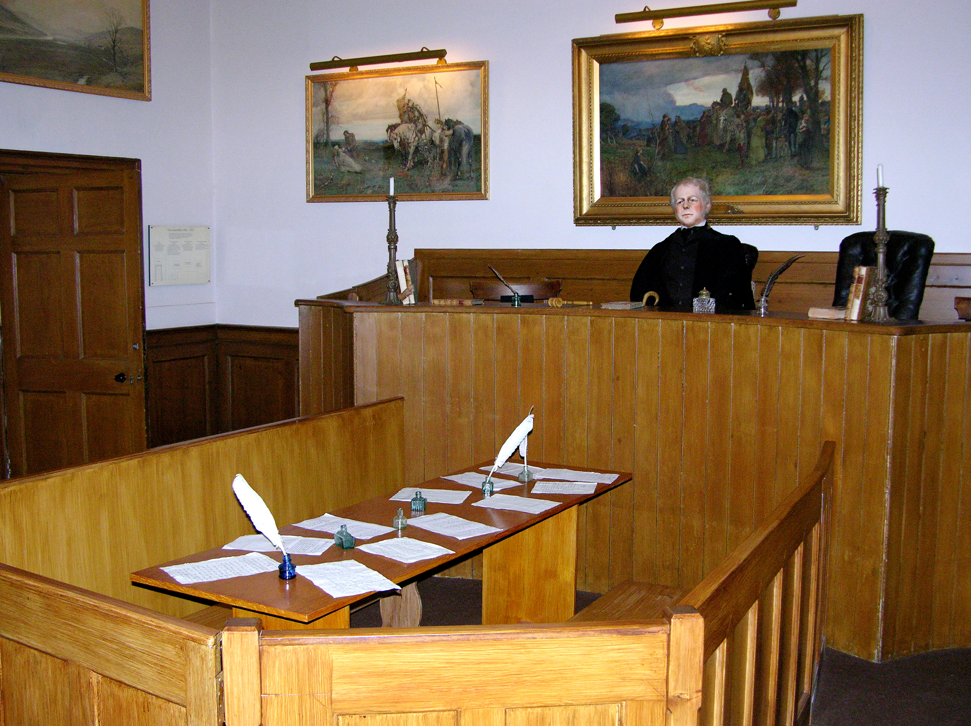 Sir Walter Scott's Courtroom, Selkirk, presided over from 17 - 18 by Sir Walter Scott who lived nearby at Abbotsford House, Situated in Selkirk Square the permanent exhibition includes Mungo Park artefacts.